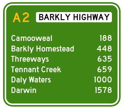 Digital representation of a road sign on the Barkly Highway